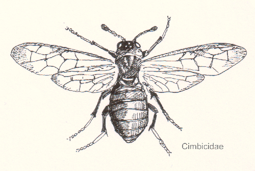 A drawing by Halvard from Norway.